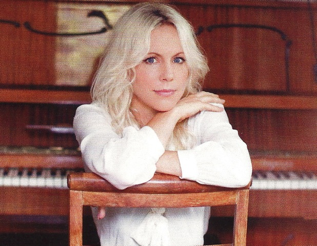 Photograph of Samantha Rebillet, taken by Derek Henderson